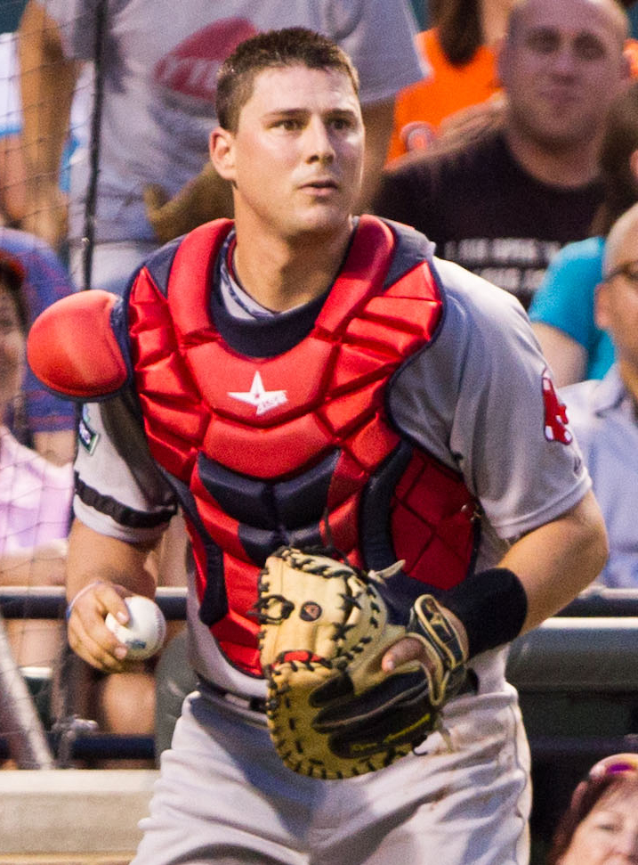 Red Sox catcher Ryan Lavarnway – Boston Red Sox at Baltimore Orioles August 14, 2012